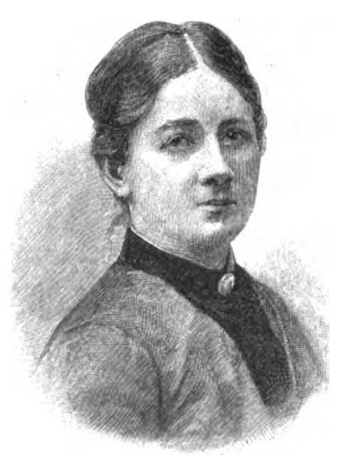 no caption